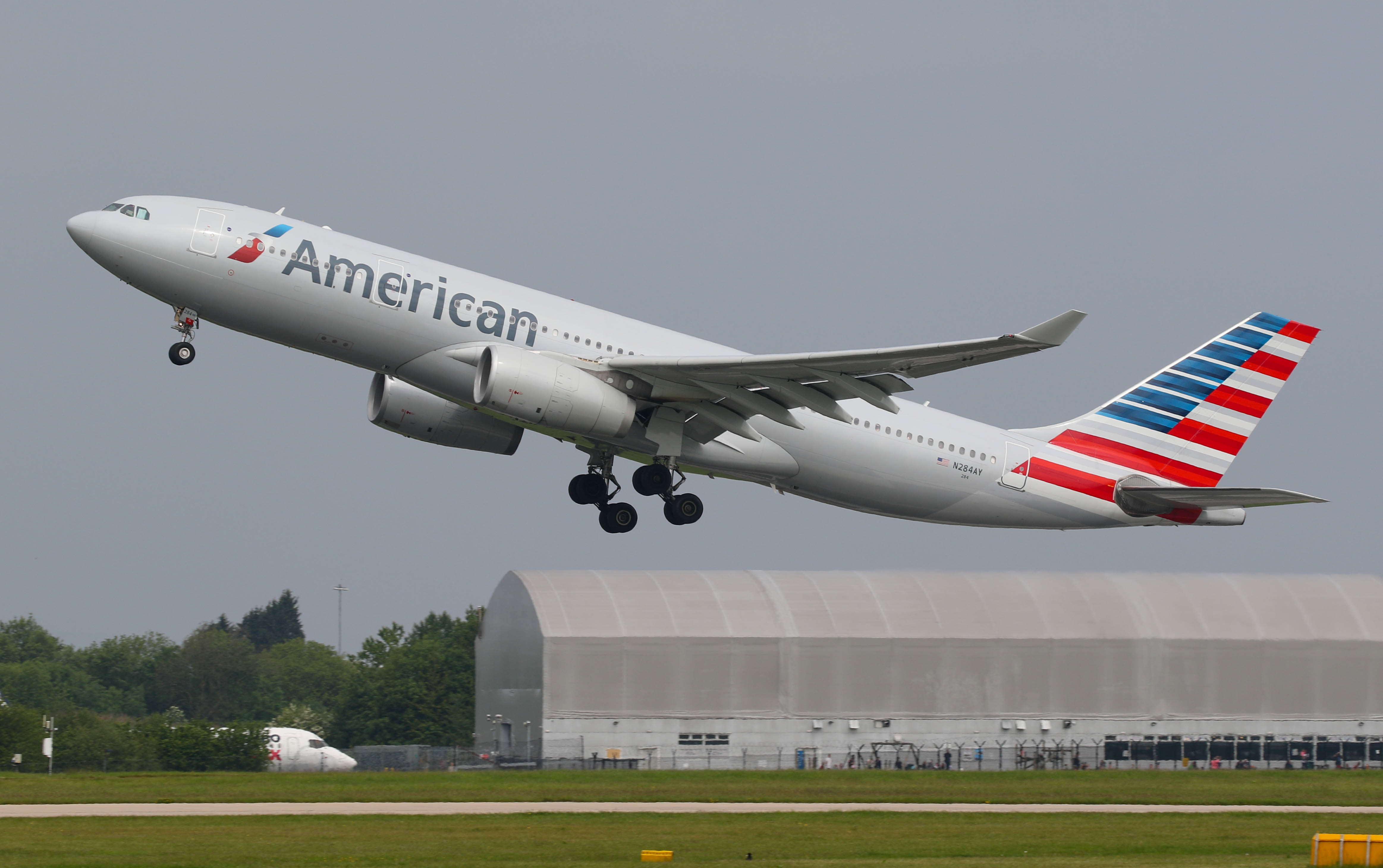 American Airlines Airbus A330 N284AY